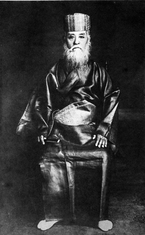 Yoshimura Chogi in aji dress